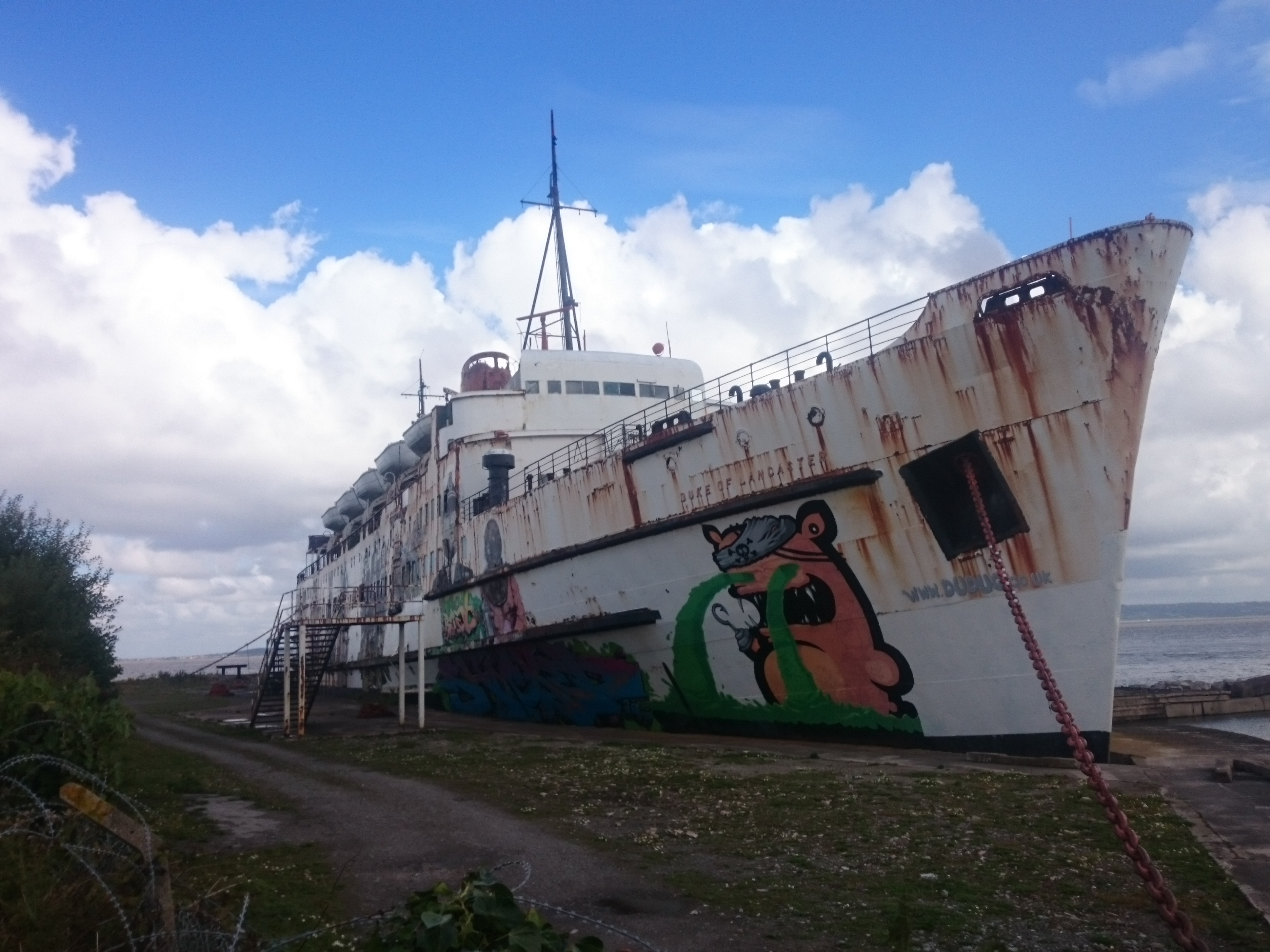 Old British Rail ferry and cruise liner, beached at Mostyn since 1979 with several years spent as an entertainment venue.